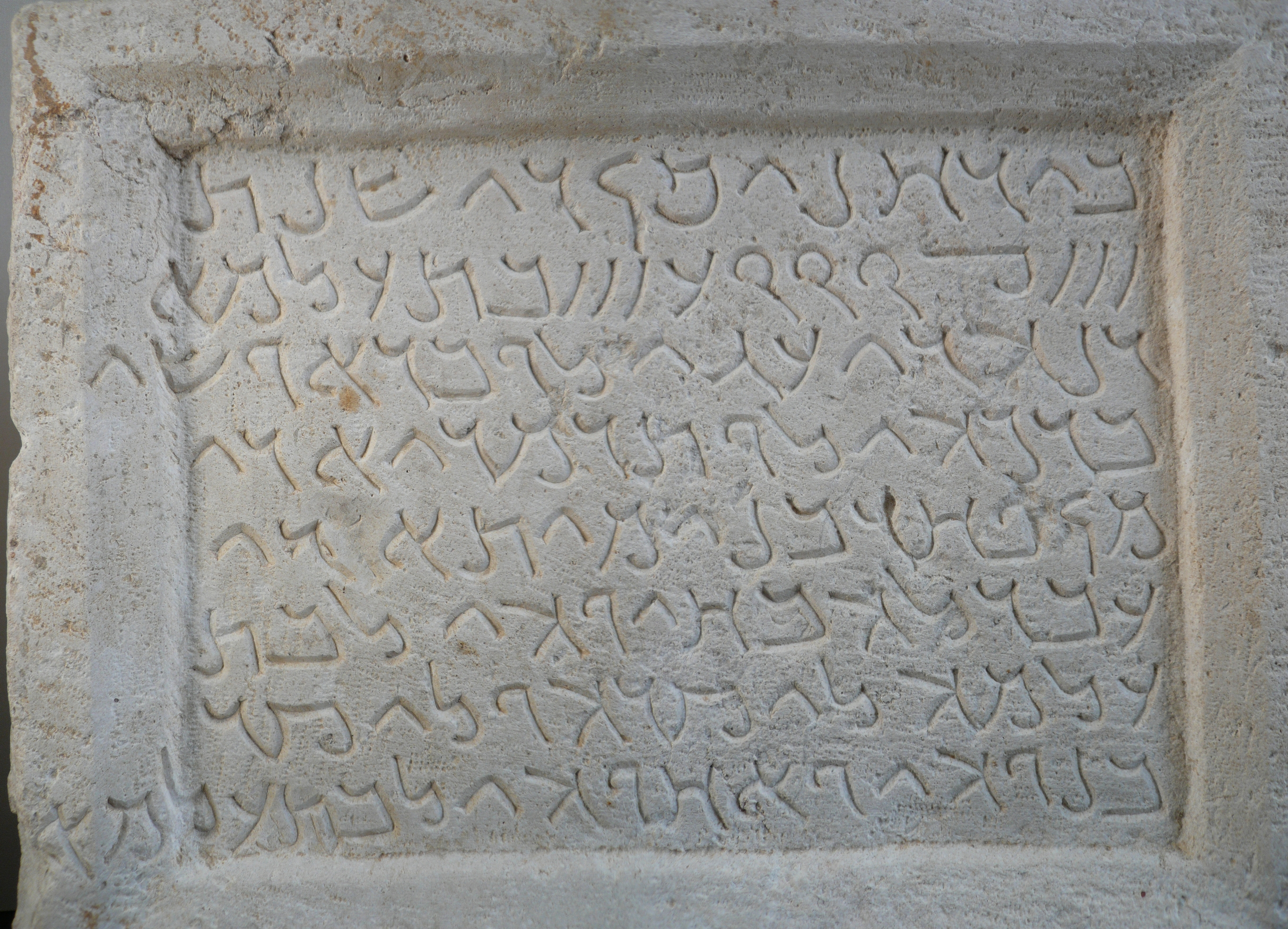 Palmyrenic inscription in Louvre